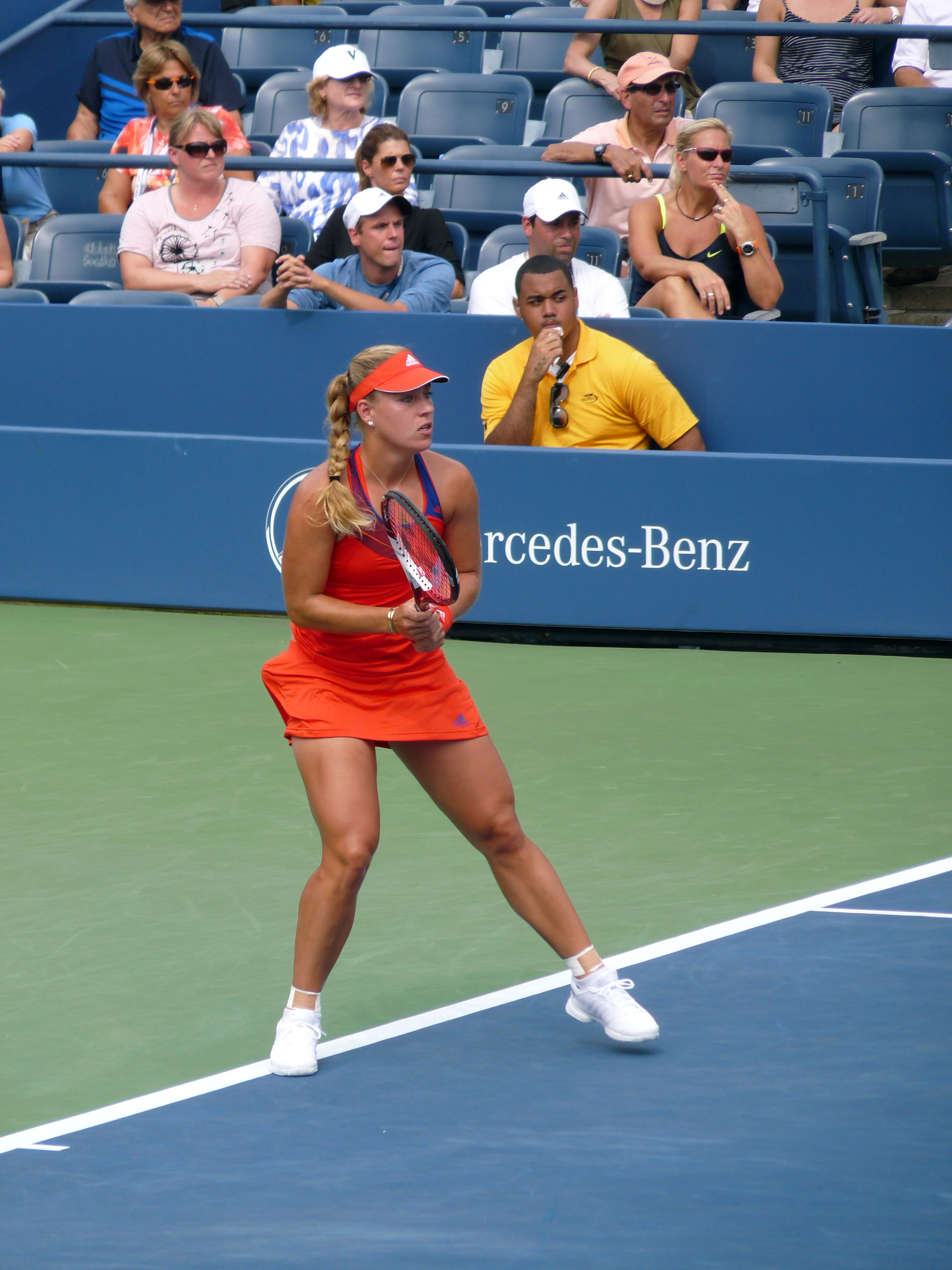 US Open 2013 - Women's Singles 4th Round (Louis Armstrong Stadium) - Carla Suárez Navarro [18] vs. Angelique Kerber [8] - 4–6, 6–3, 7–6(7–3)